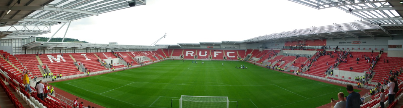 Rotherham Vs Barnsley - Fist ever game at the New York Stadium 21/7/12